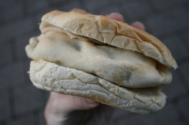 A picture of a Pasty Barm, a delicacy native to Bolton, in Greater Manchester, England